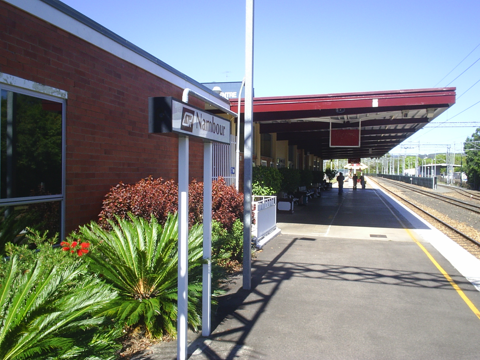 QR Nambour Railway Station, looking towards the City on 07/09/06 by Qld matt 11:24, 7 September 2006 (UTC)